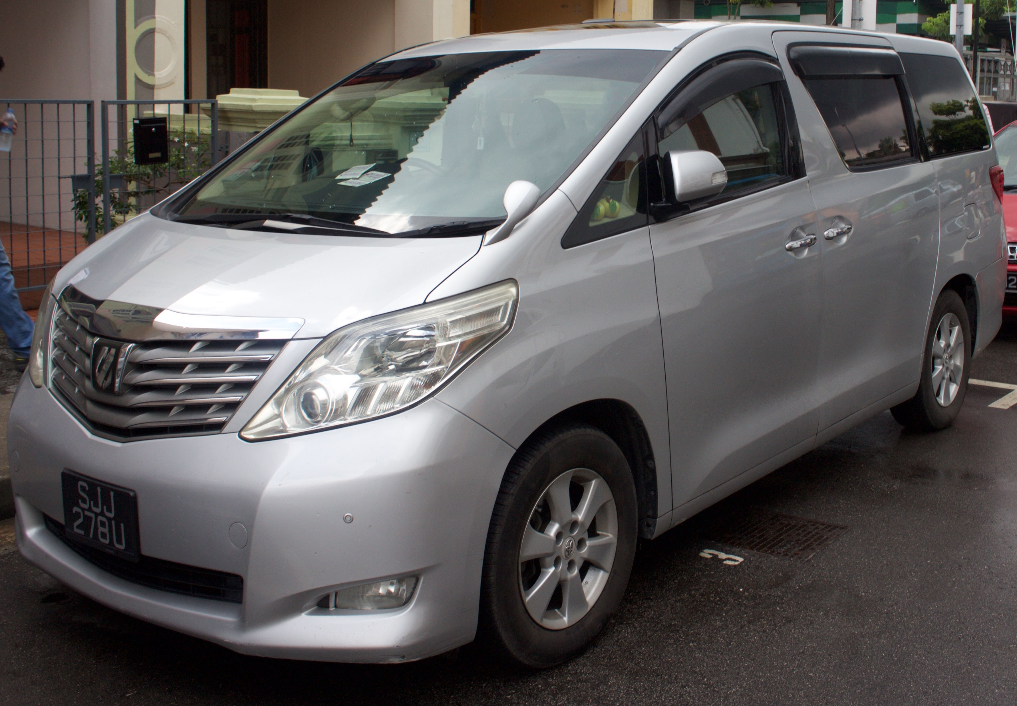 2008 Toyota Alphard (ANH20) 2.4X van. Photographed at Little India, Singapore. Vehicle registration enquiry resultsJurisdictionSingaporeRegistrationSJJ278UChassis codeANH208005330 (ALPHARD 2.4X A)Engine code2AZF177295Year of manufacture2008